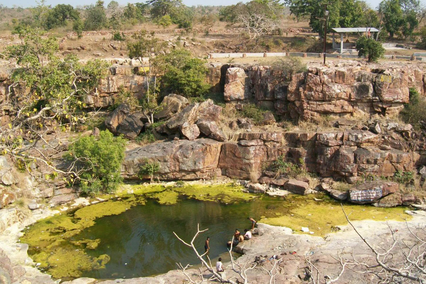 The Landscape around Bhanwar Mata temple in Chhoti Sadri in Pratapgarh Rajasthan